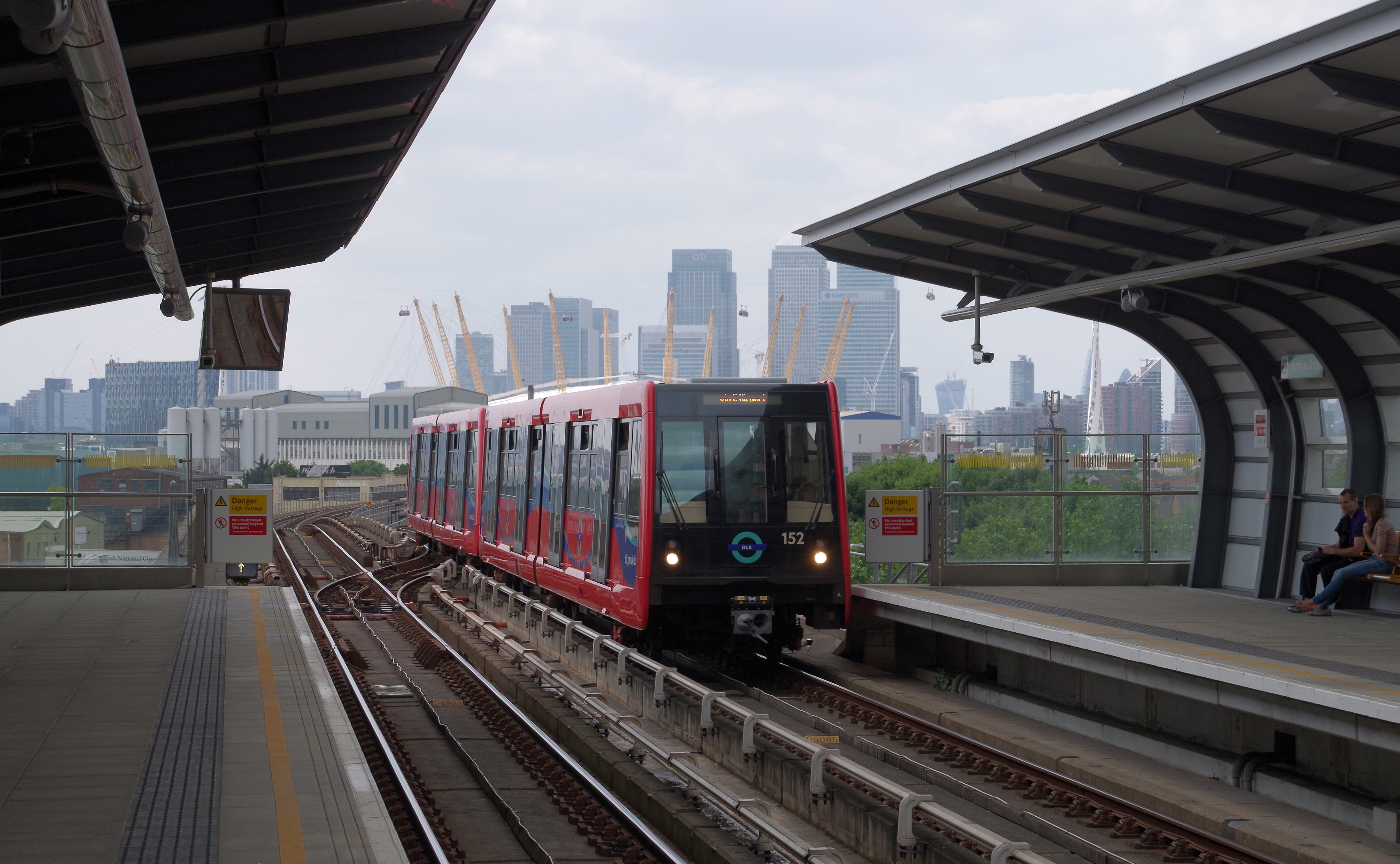 An eastbound service, headed by type B07 EMU 152, arrives at Pontoon Dock DLR station.